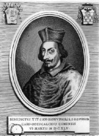 Cardinal Benedetto Odescalchi (future Pope Innocent XI)